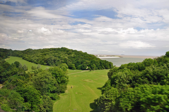 Porthkerry Park from a train on the viaduct